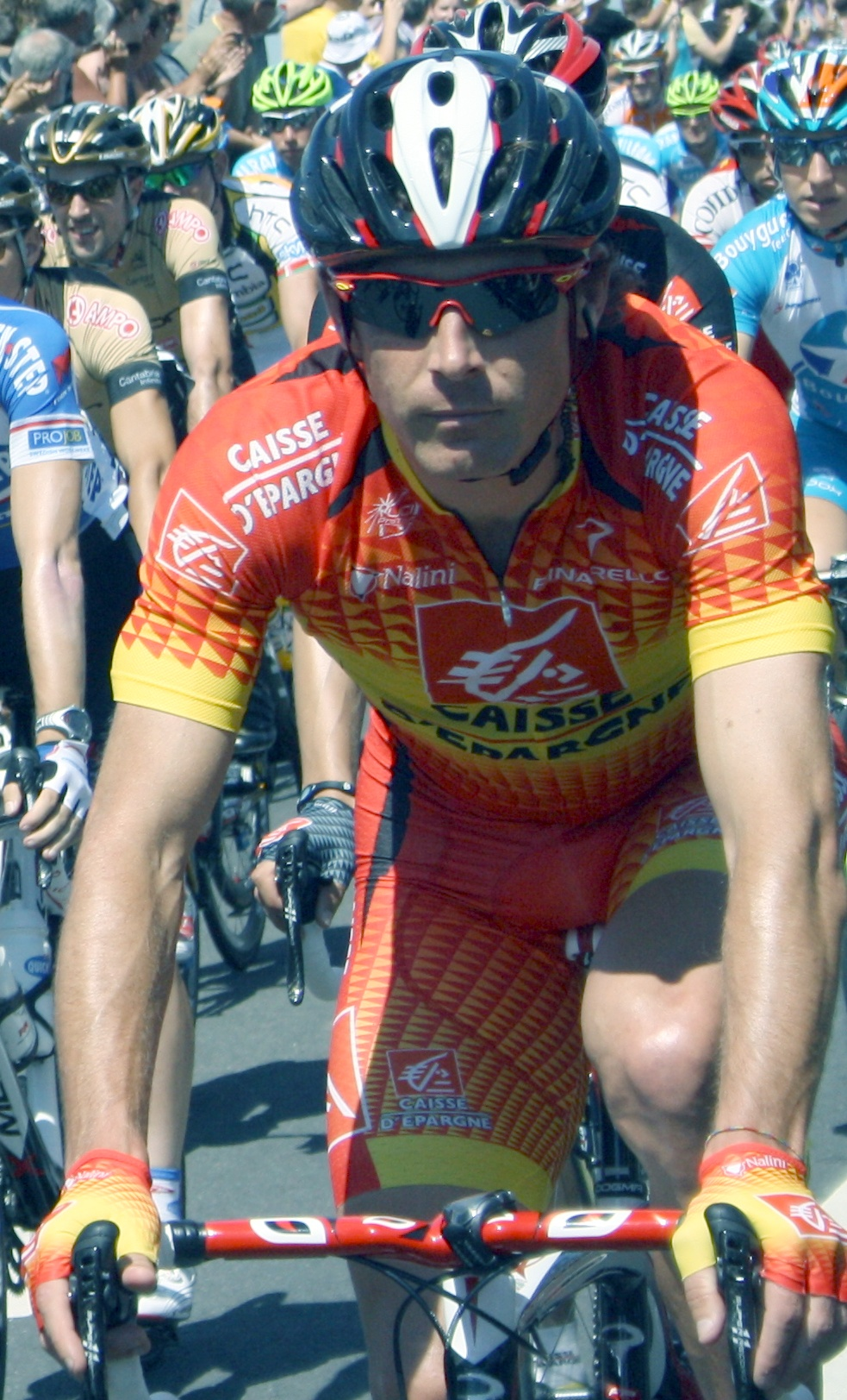 José Iván Gutiérrez at the start of the first stage of the 2010 Tour de France in Rotterdam